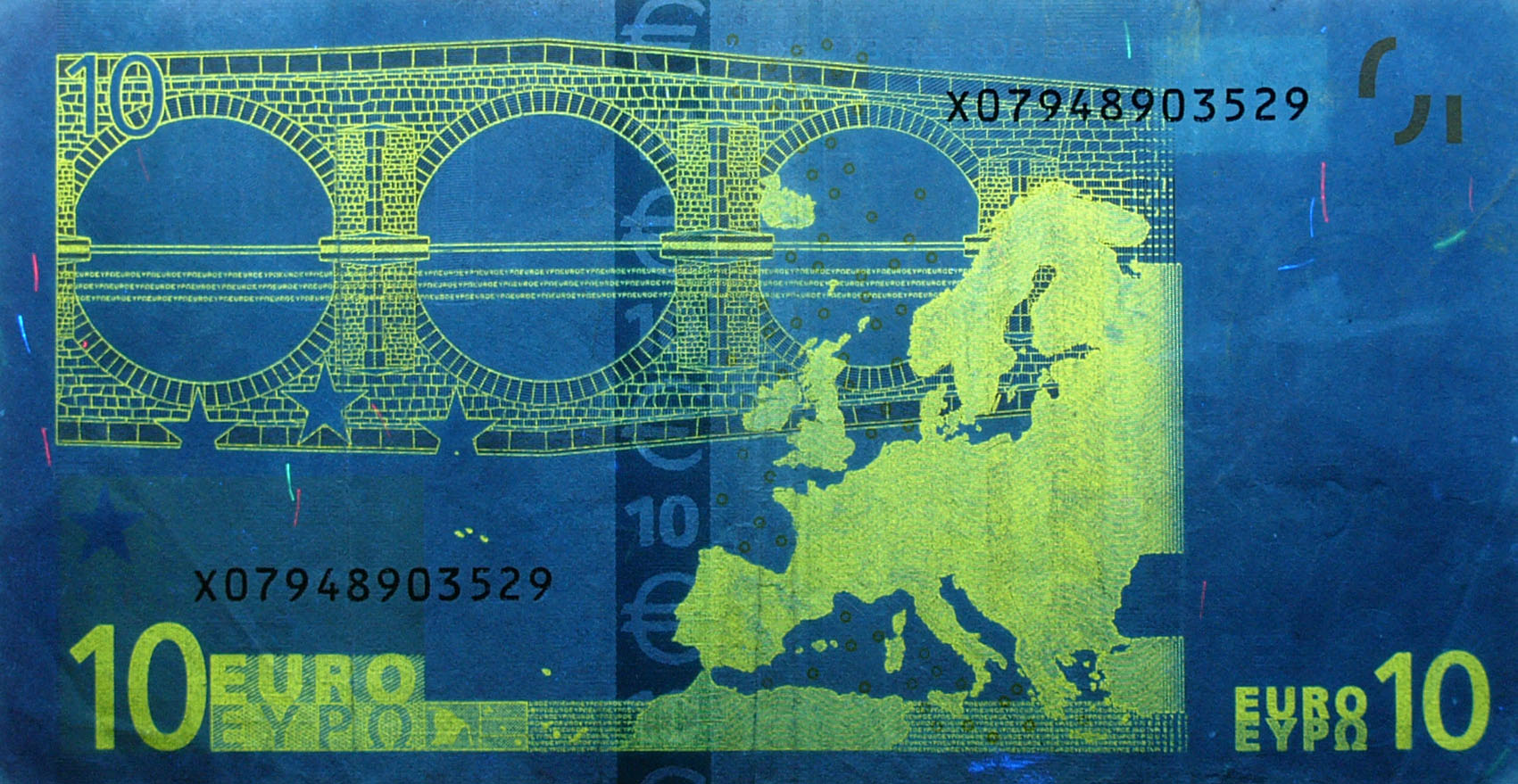 10-euro banknote under fluorescent light (UV-A)